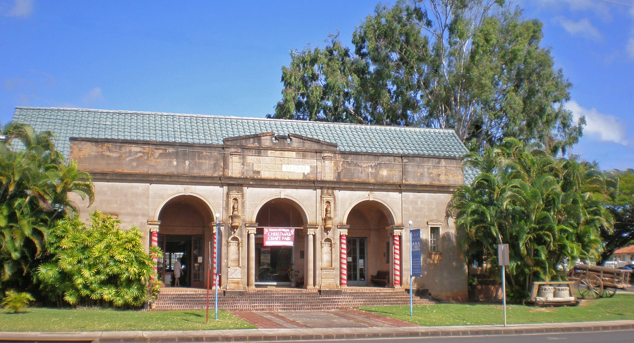 Front facade of Albert Spencer Wilcox Building, 4428 Rice St., Lihue, Kauai, on National Register of Historic Places, designed by Hart Wood in 1922, opened in 1924 as public library, converted to Kauai Museum in 1970